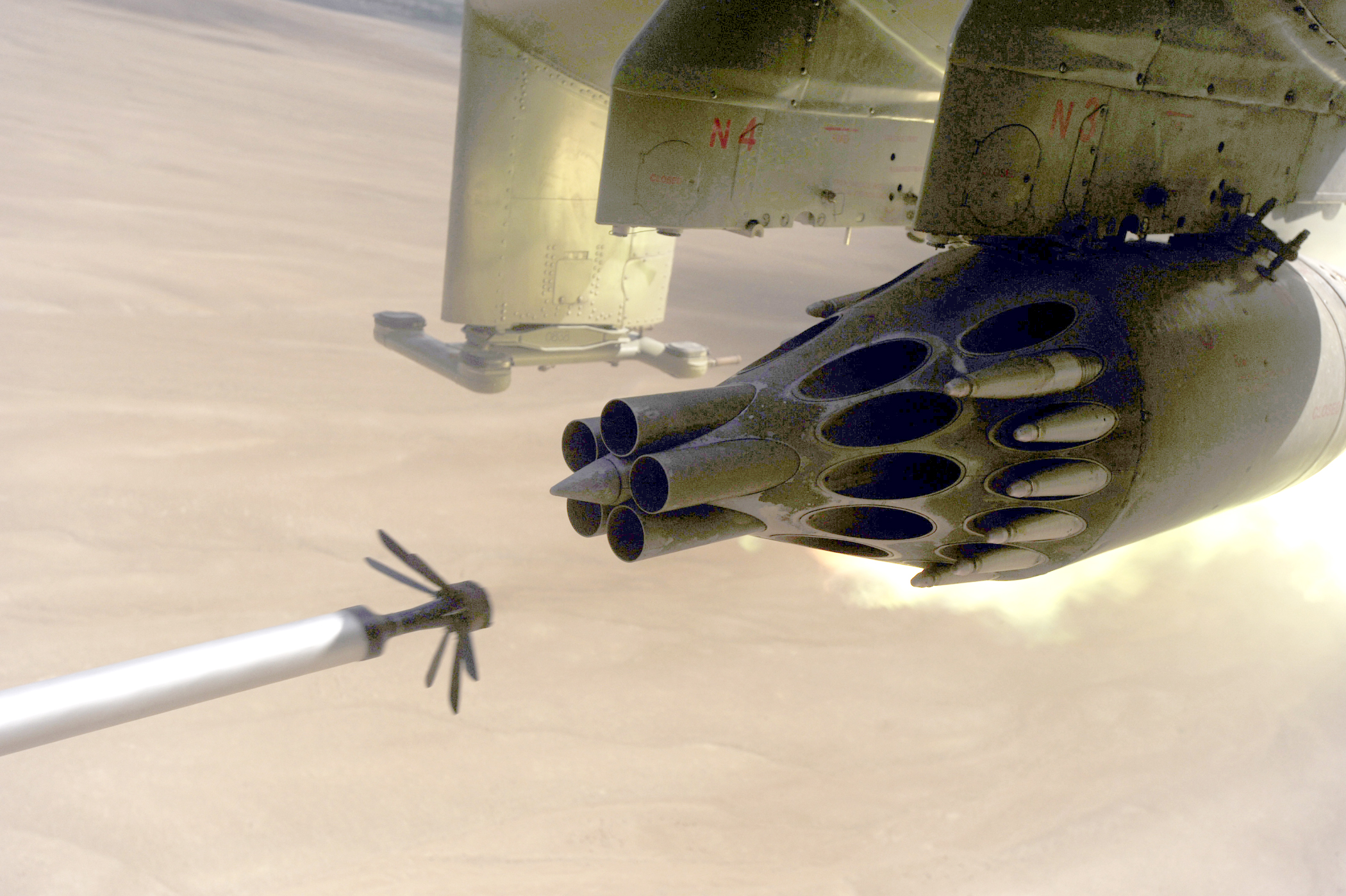 A KP long-guided rocket leaves its launcher mounted on an Afghan National Army Air Corps MI-35 helicopter on a live-fire training mission May 11, 2010, over Afghanistan. (U.S. Air Force photo/ Staff Sgt. Manuel J. Martinez)